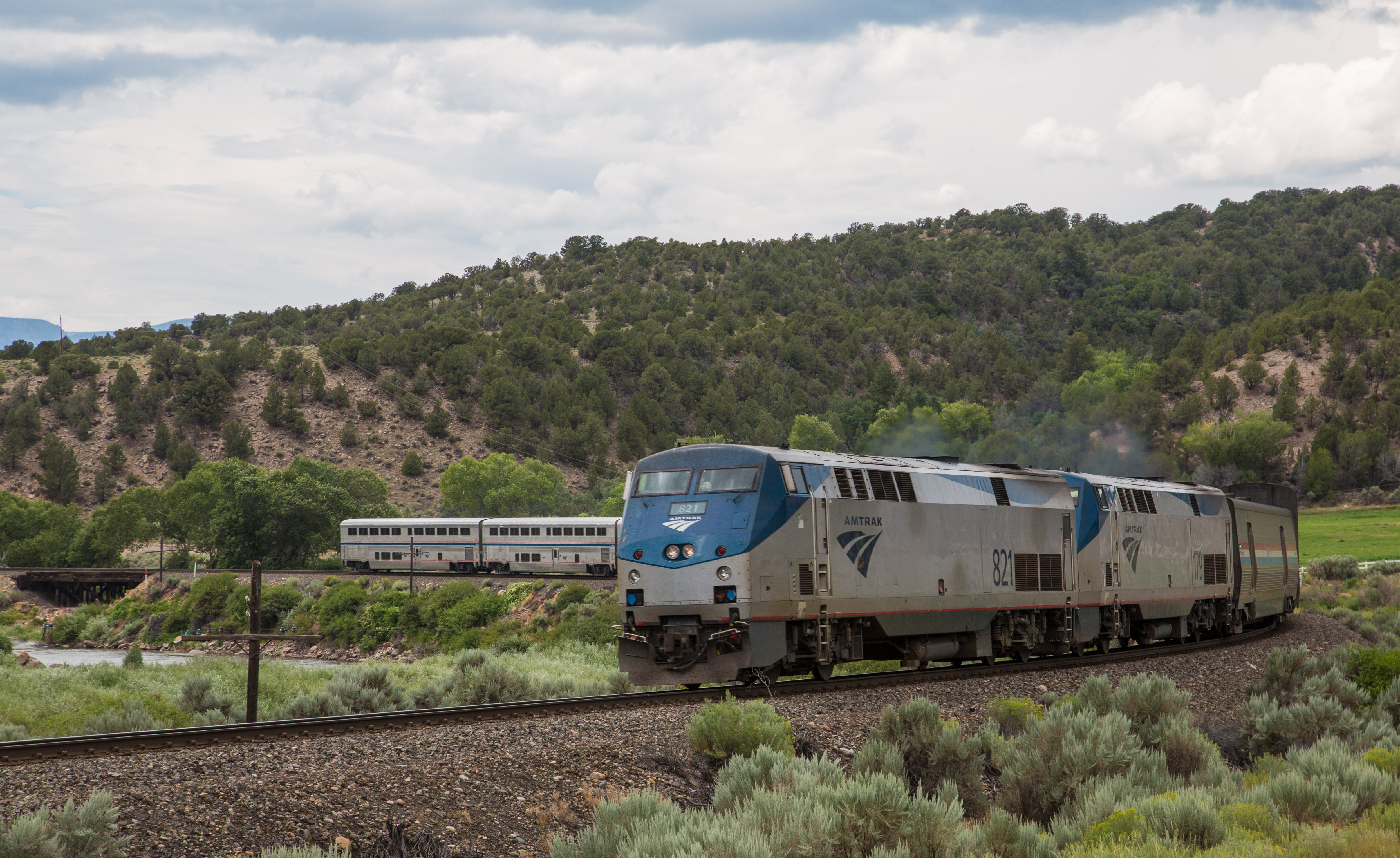 Amtrak's California Zephyr train travels along the Colorado River near McCoy, Colorado